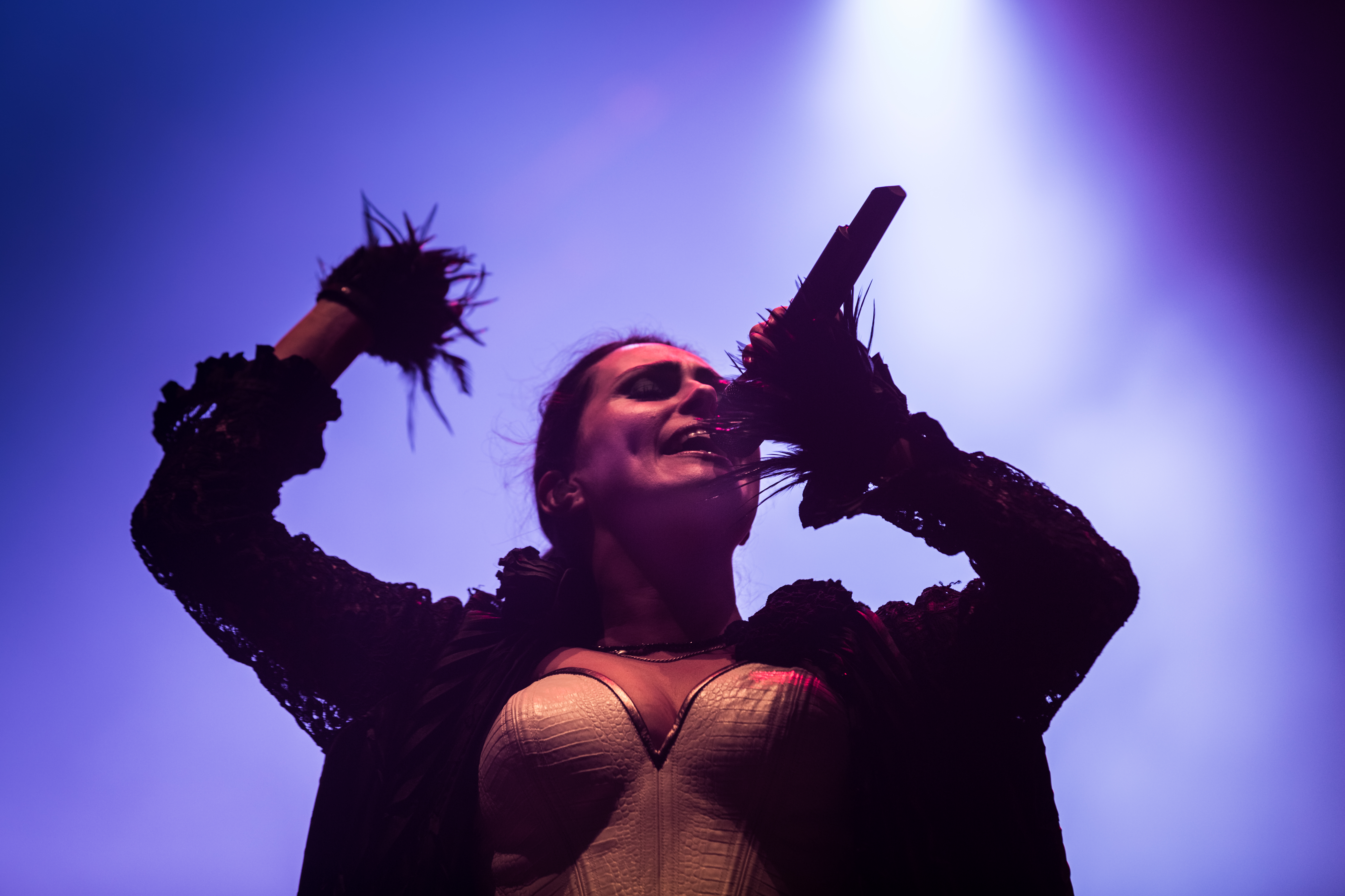 Within Temptation - Wacken Open Air 2015